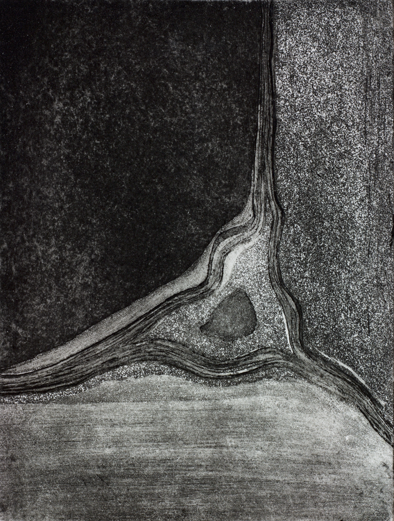 Untitled - Metal engraving